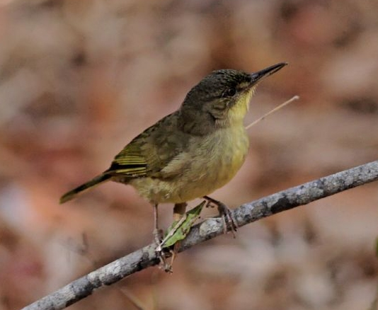 Bernieria madagascariensis (syn. Phyllastrephus madagascariensis)